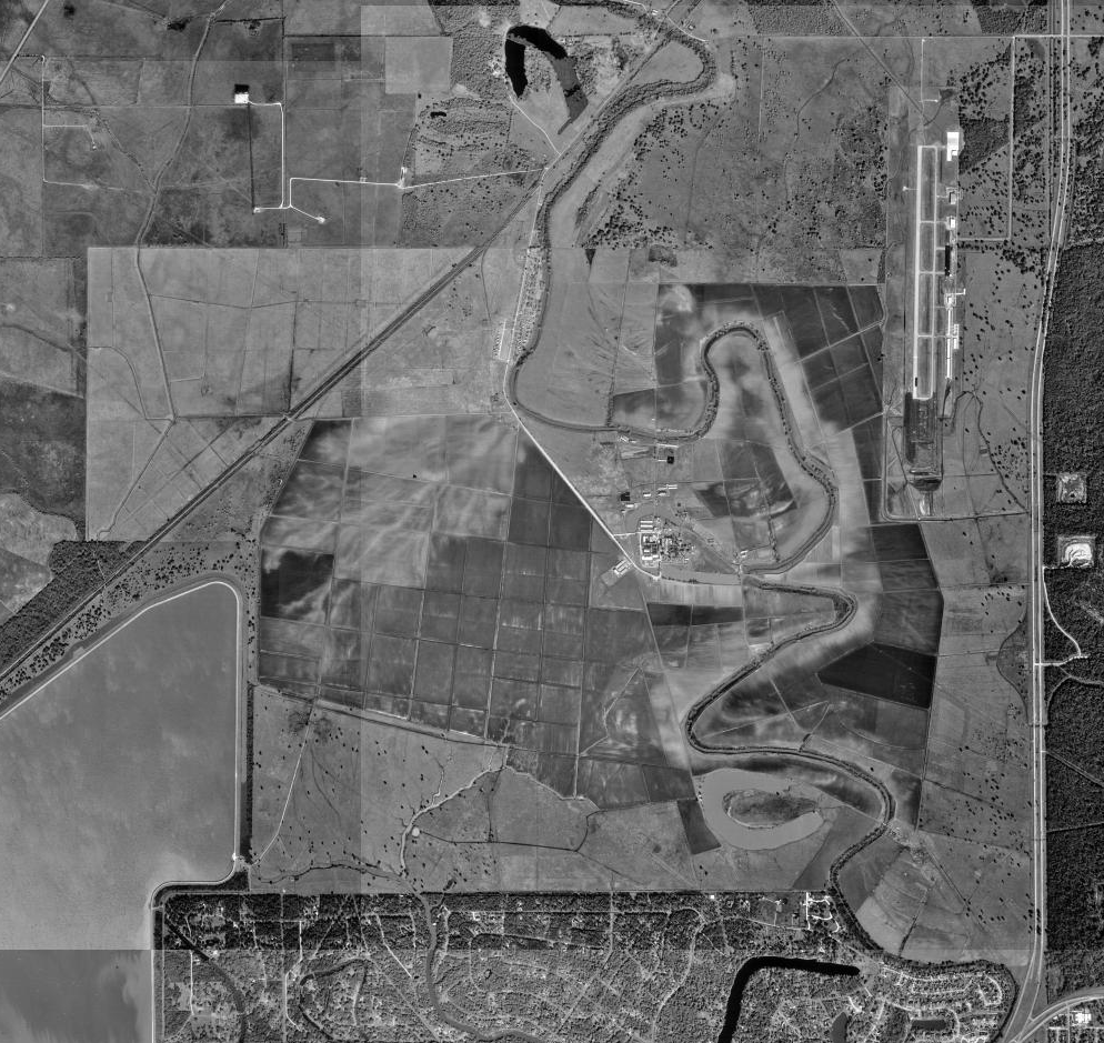 Aerial photograph of the Wayne Scott (Retrieve) Unit and the Texas Gulf Coast Regional Airport (Brazoria County Airport)